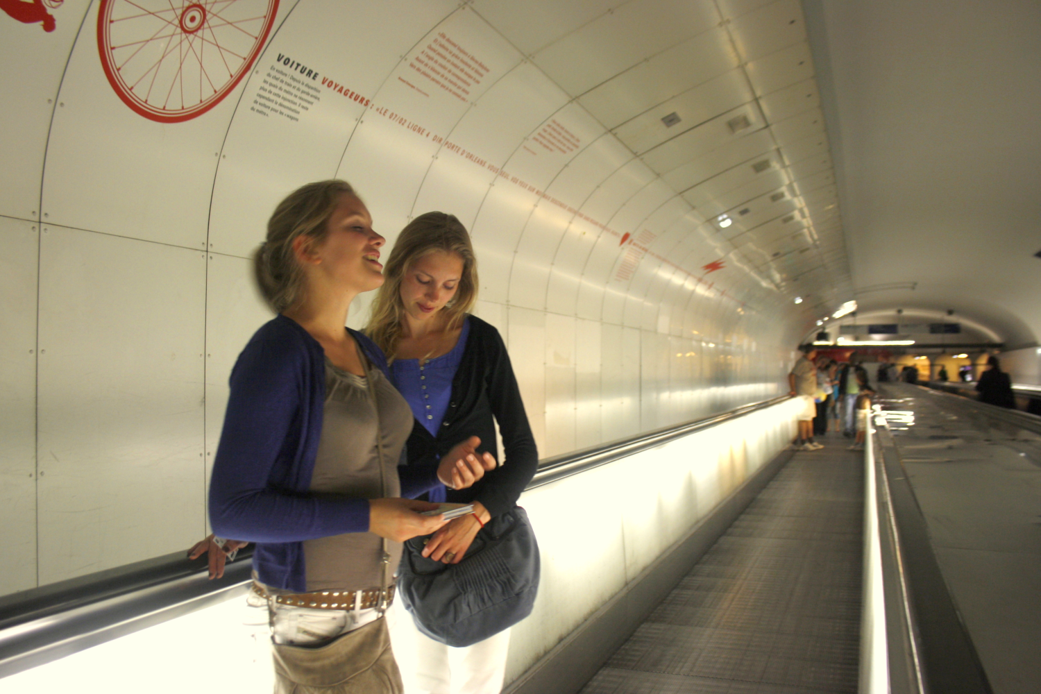 Girltalk in the metro of Paris